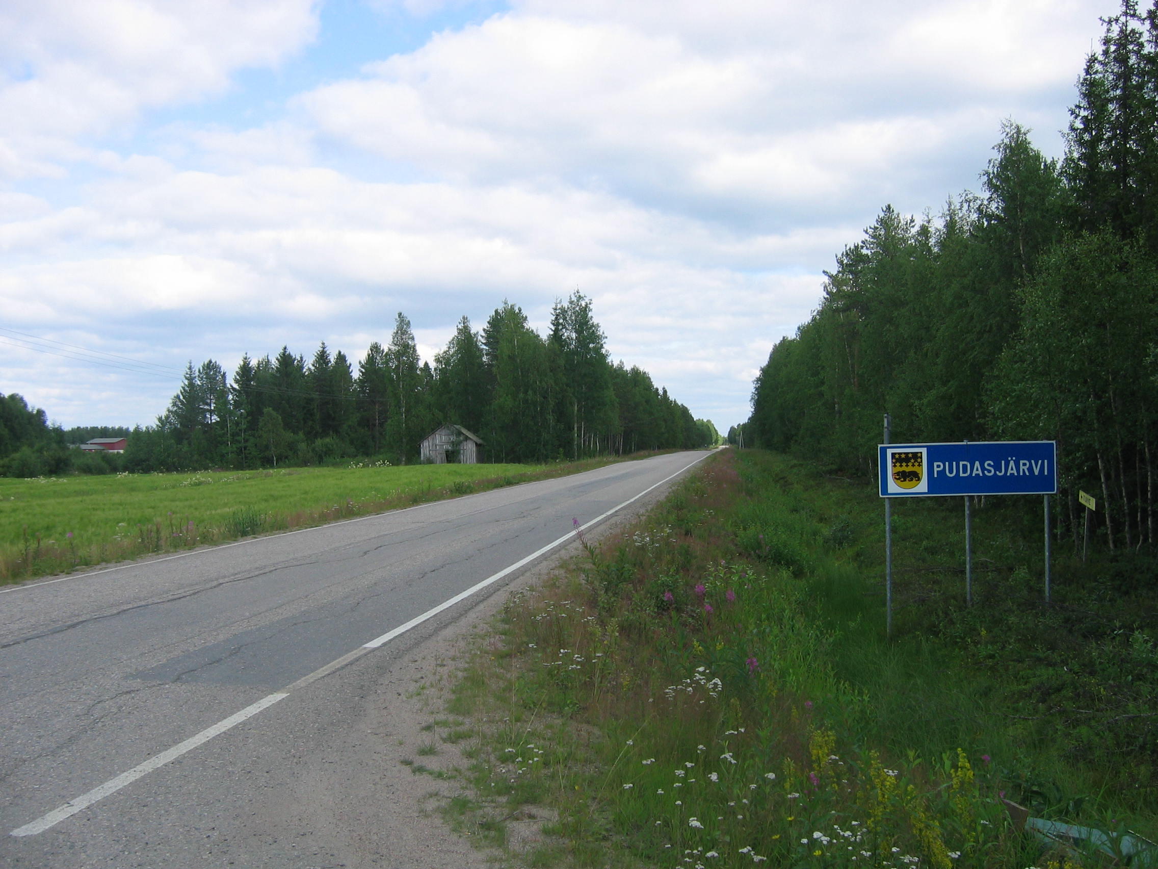 Hetekyläntie road (connecting road 8361) at the border of municipalities of Ylikiiminki and Pudasjärvi, Finland